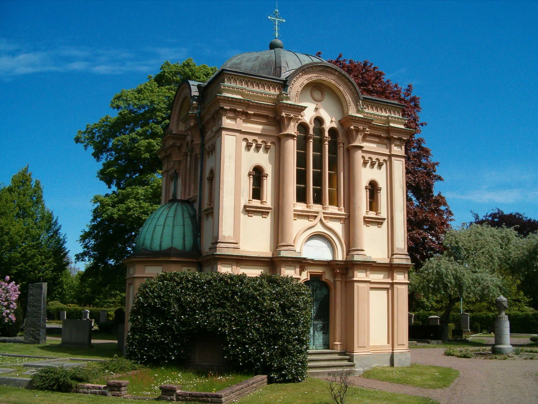 The Banck family mausoleum at the Donation Cemetary in Helsingborg, Sweden.